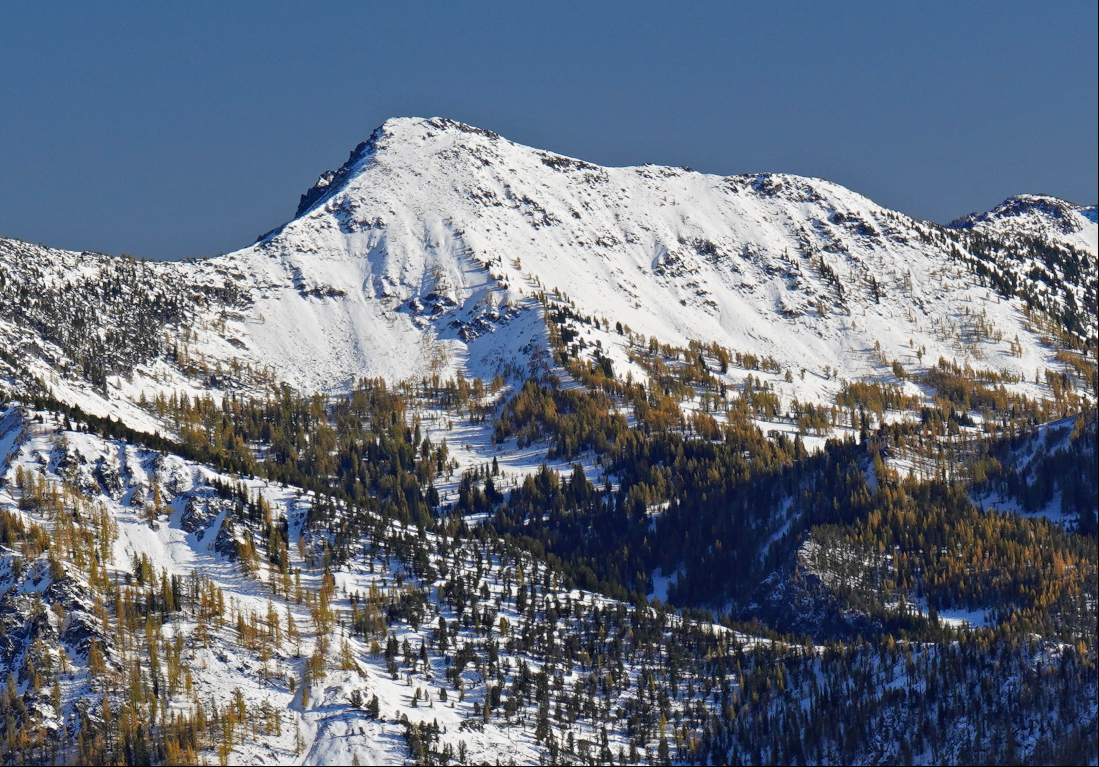 From Pt 7912- view SE towards Switchback Peak on Sawtooth Ridge, Methow Mountains.